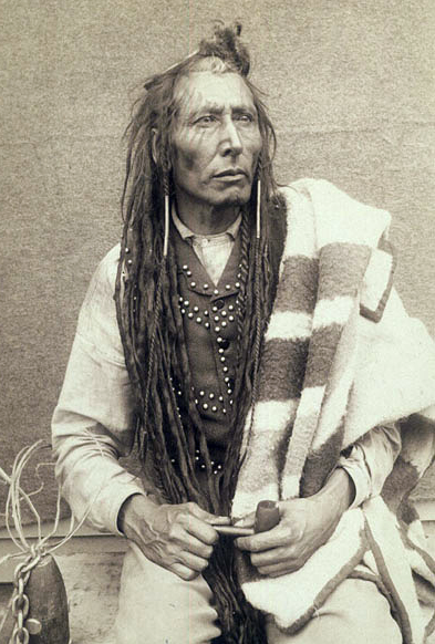 Poundmaker, a chief of the plains Cree First Nation, Image courtesy of the National Archives of Canada, C-001875. Image levels adjusted and top and left cropped.